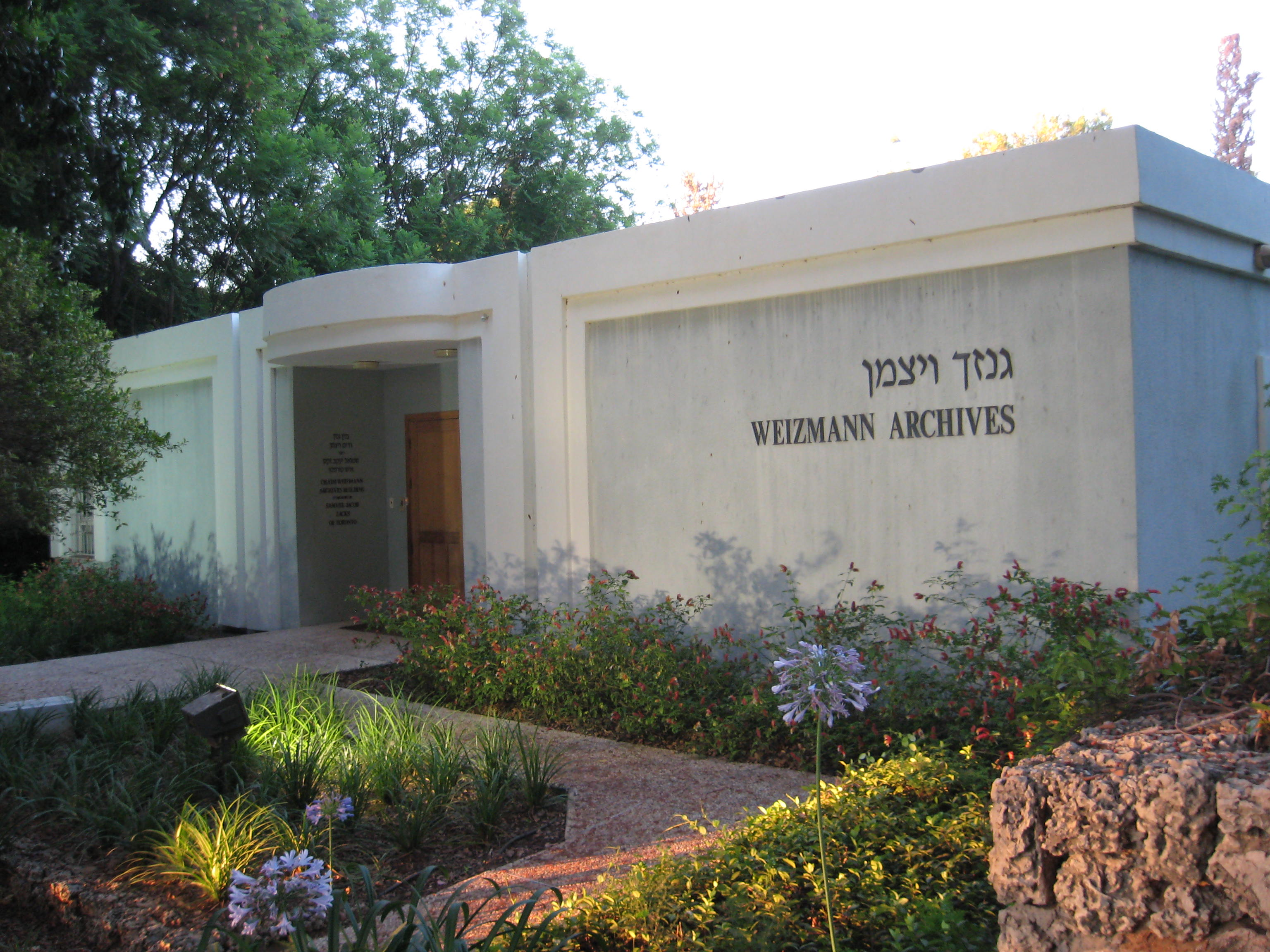 The Weizmann Archives in Rehovot, Israel